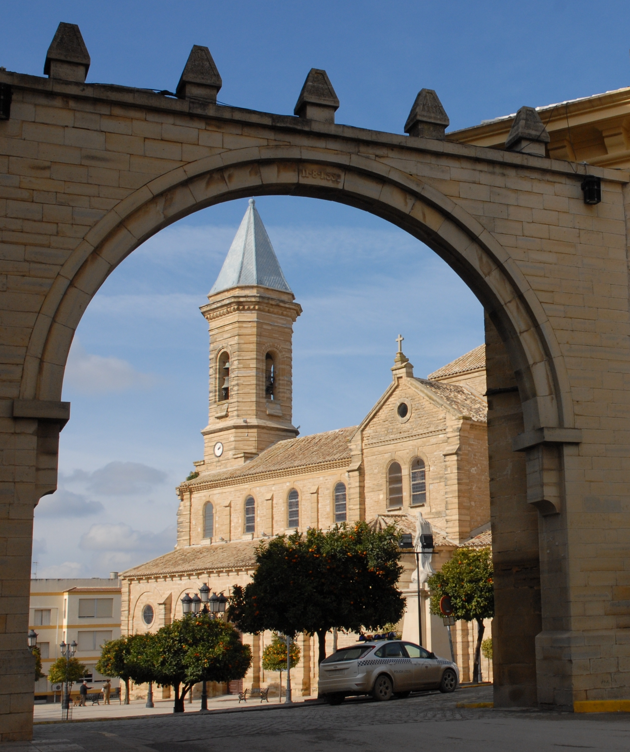 Arc, Place of Andalusia and Church of Our Lady of the Elevation at Porcuna, Spain